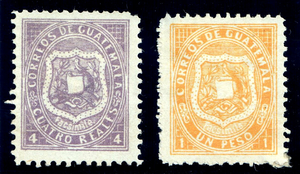 Guatemala fake 1872 issue, mint. Imprint 'Facsimile' below crest. Probably made by Senf. Catalogue: Sc. 5, 6